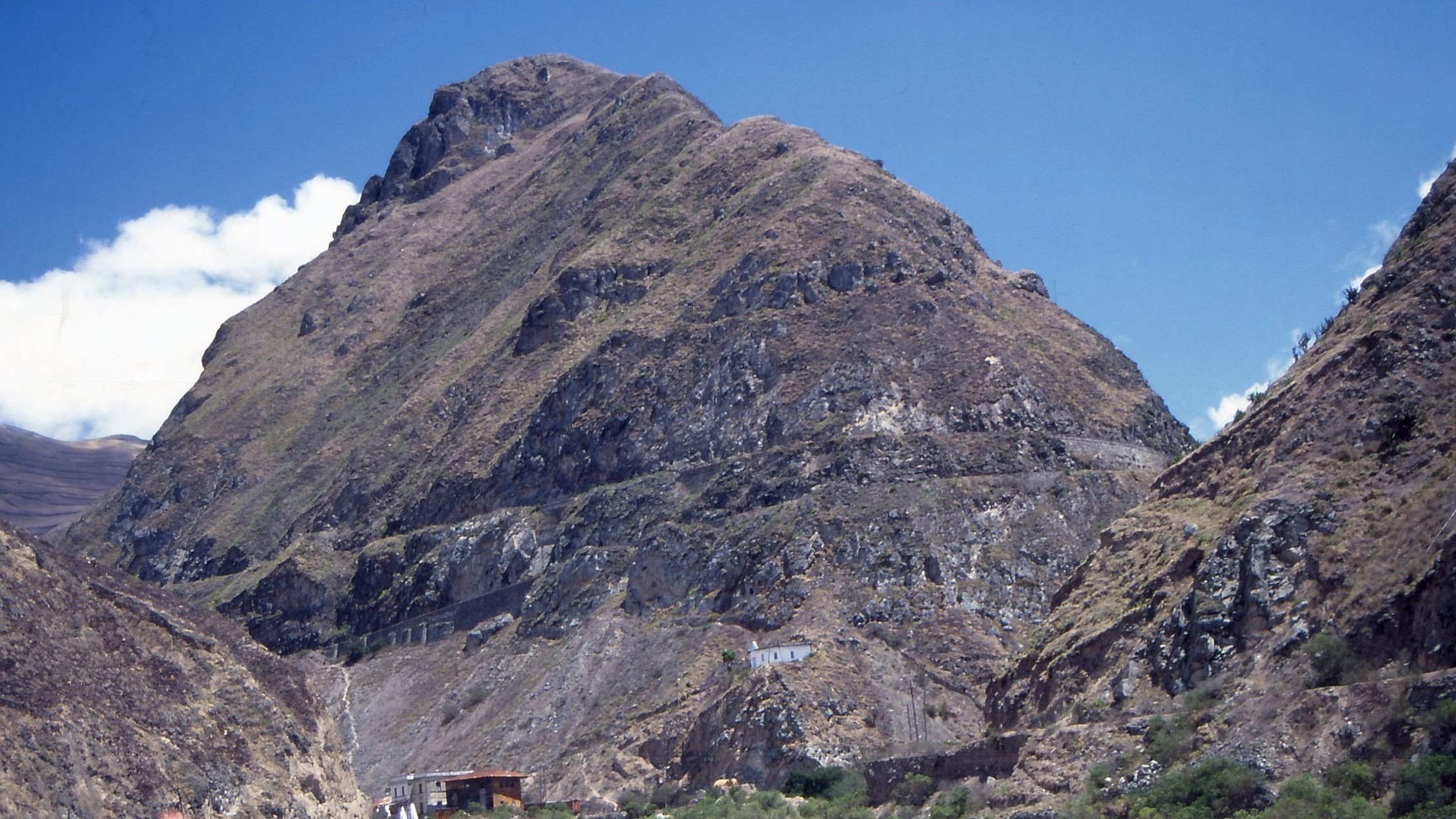 Devil's Nose in Ecuador